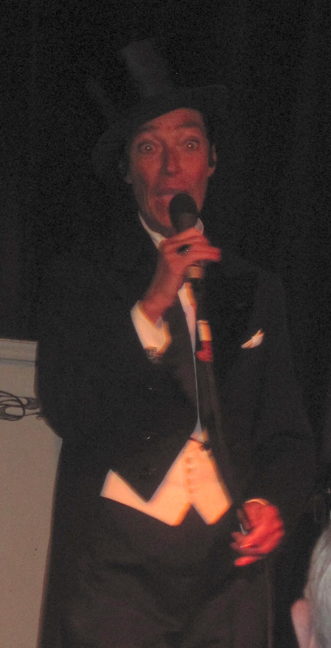 Swedish vocalist Lillemor Dahlqvist (born 1938) performing at the concert staged due to the 100th anniversary of the birth of Johnny Bode, January 2012.